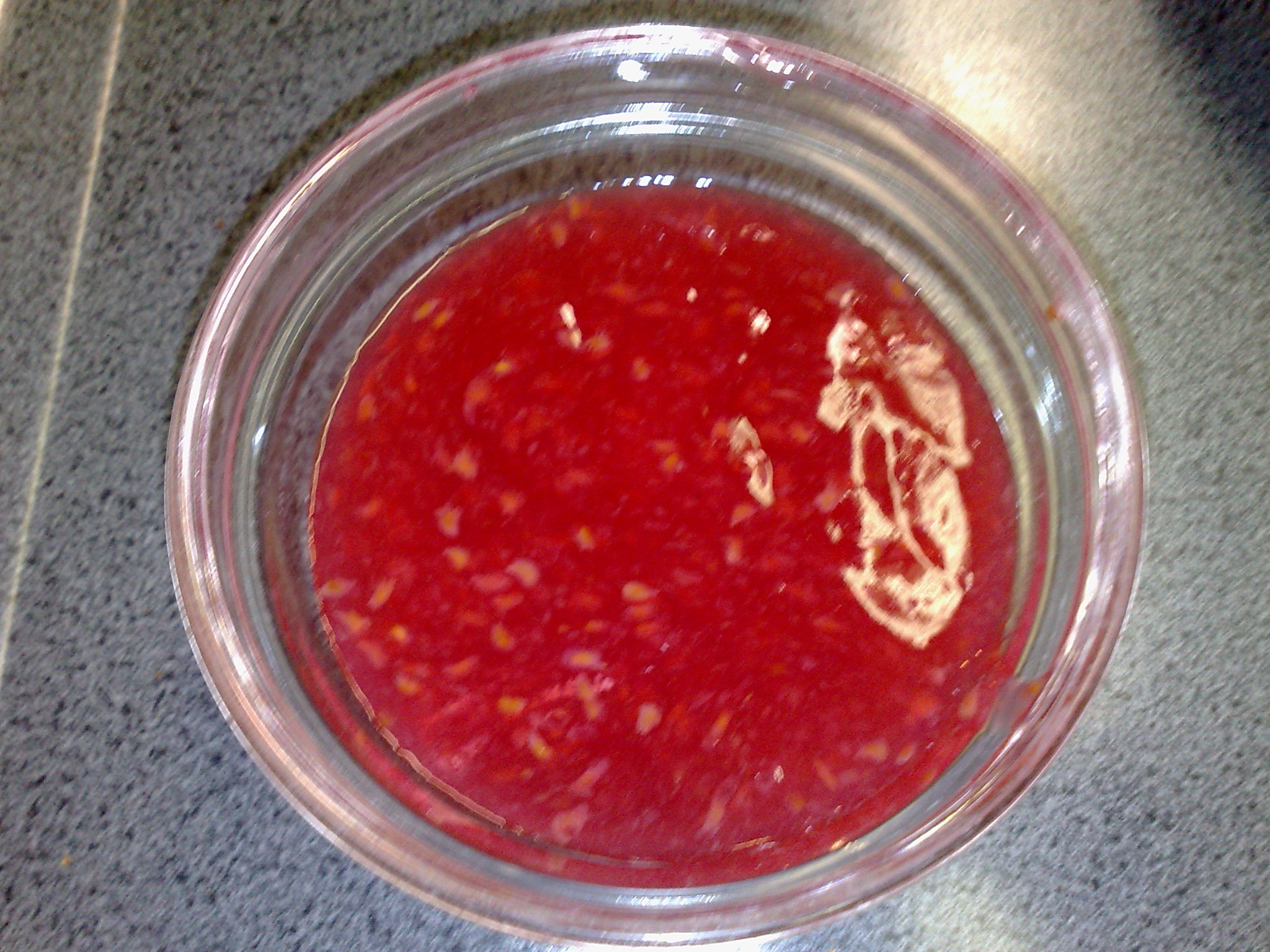 Picture shows Finnish food, called as kiisseli.